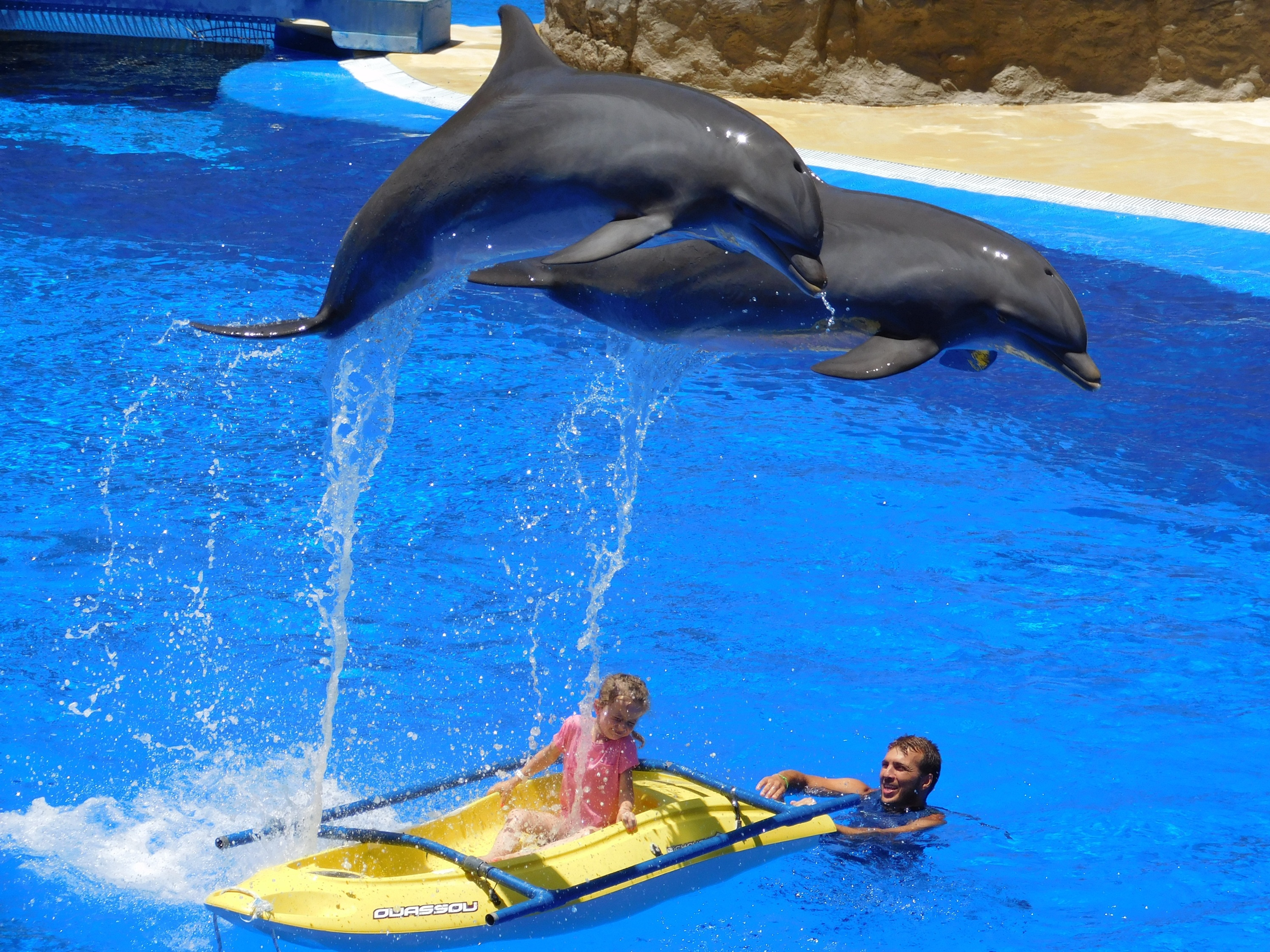 Dolphins jumping in a pool